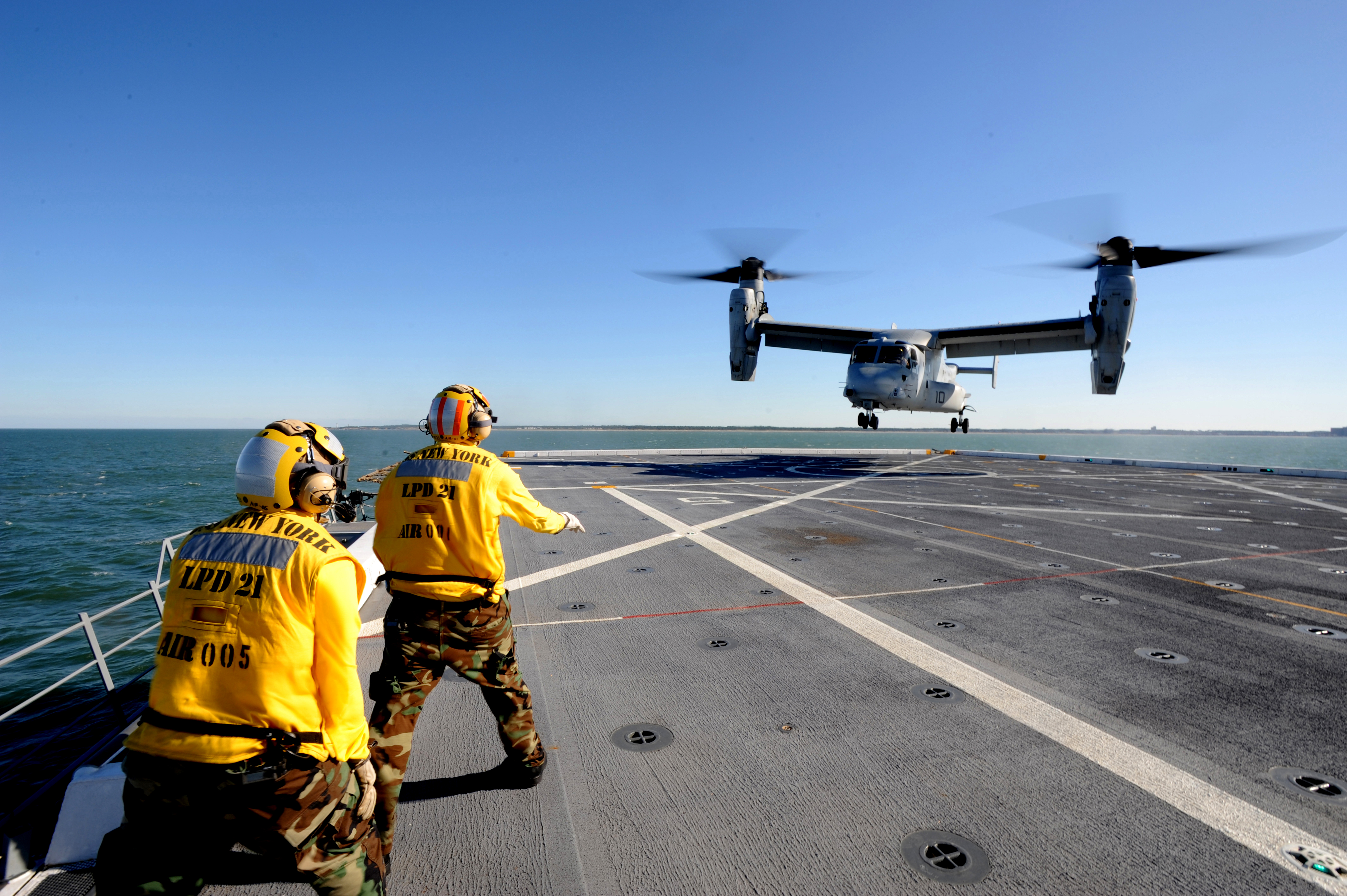 ATLANTIC OCEAN (Oct. 19, 2009) Aviation Boatswains Mate Handler 2nd class Dustin Shipman assigned to the amphibious transport dock ship Pre-Commissioning Unit (PCU) New York (LPD 21), directs an MV-22 Osprey to land on the flight deck. New York is conducting flight deck certifications. This flight marks the first aircraft to land on the flight deck. New York has 7.5 tons of World Trade Center steel in her bow and is scheduled for commissioning on Nov. 7, 2009. (U.S. Navy photo by Mass Communication Specialist 1st Class Corey Lewis/Released)